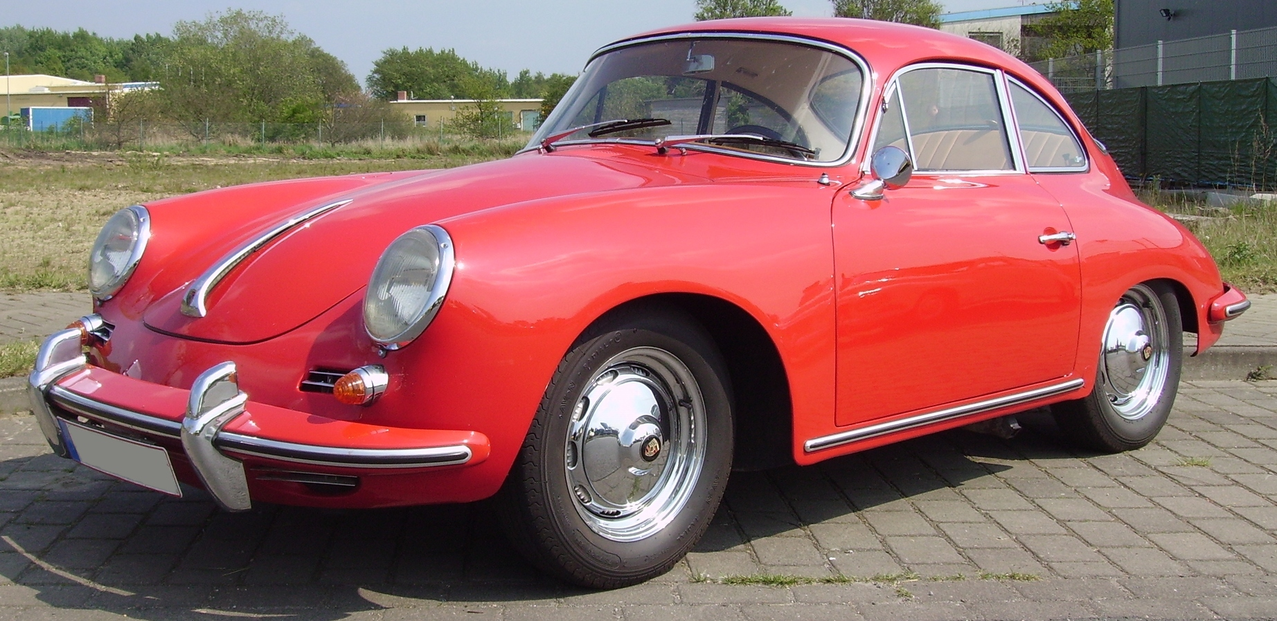 A Porsche 356